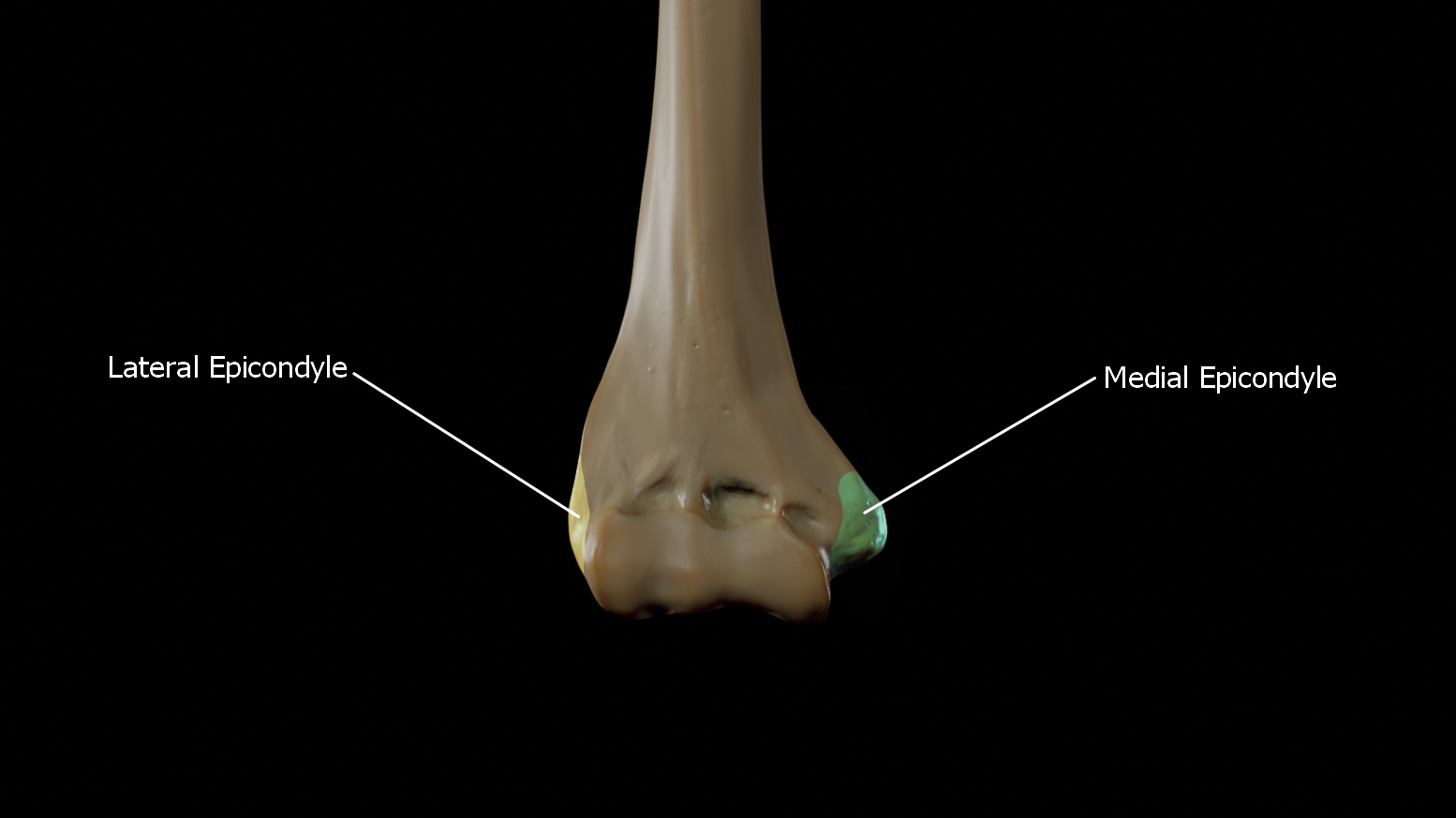 The lateral epicondyle is the non-articular lateral bulge of bone located superior and lateral to the capitulum. The radial collateral ligament attaches to the lateral epicondyle. The common tendon of the extensor muscles of the forearm and the supinator muscle originate on the lateral collateral ligament. The medial epicondyle is the non-articular medial bulge of bone located superior and medial to the trochlea. The medial epicondyle is more prominent than the lateral epicondyle and the ulnar collateral ligament is attached here along with the forearm flexors.